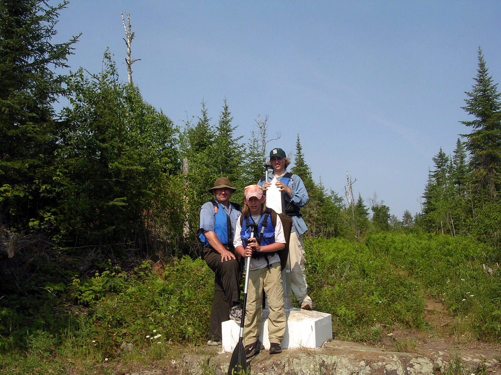 Height of Land, Between North and South Lake in the Superior National Forest Grand Marais vicinity; photo taken on the shore of South Lake at south end of portage at obelisk boundary marker. Canada is to the viewer's right; USA to the left.